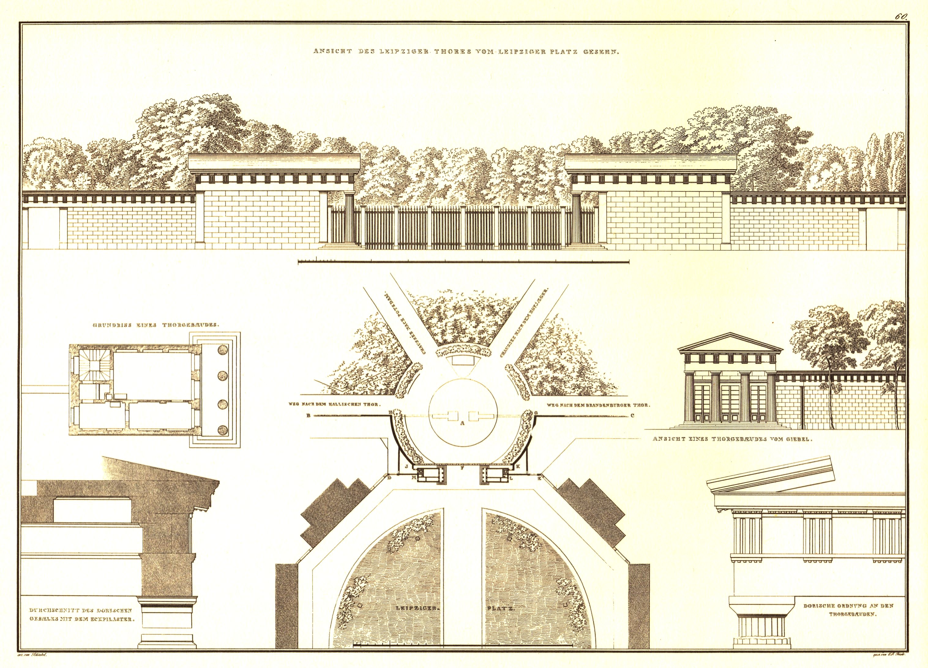 Berlin, Potsdam's Gate (also called new Leipzig's Gate), architectural design by Carl Friedrich Schinkel